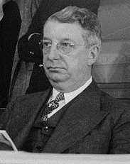 Harry N. Routzohn, Ohio, cropped from a photo in Washington, D.C., December 11, 1939.